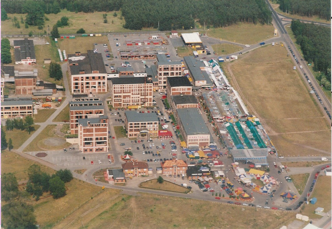 Former cellulose factory in Osinów Dolny, Poland